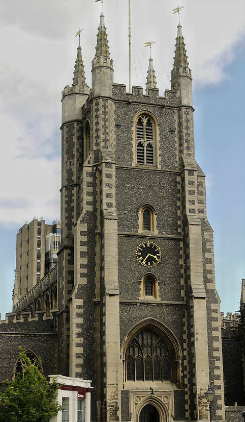 P1180529 Croydon Minster....07.05.14..